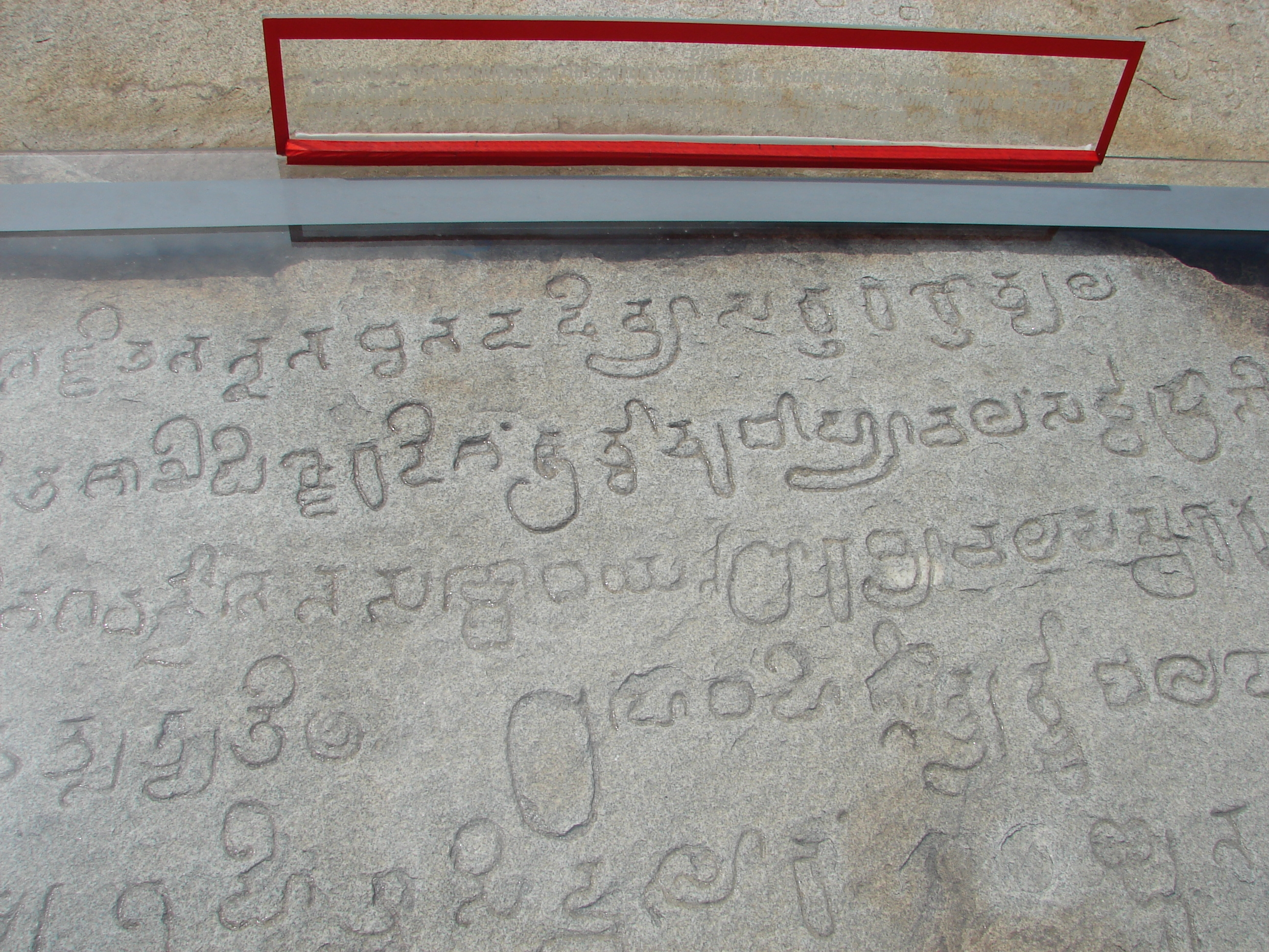 A 7th century Kannada inscription inscribed on rock surface (now protected by fibre glass) at Chandragiri Hill temple complex, Shravanabelagola, Karnataka India.